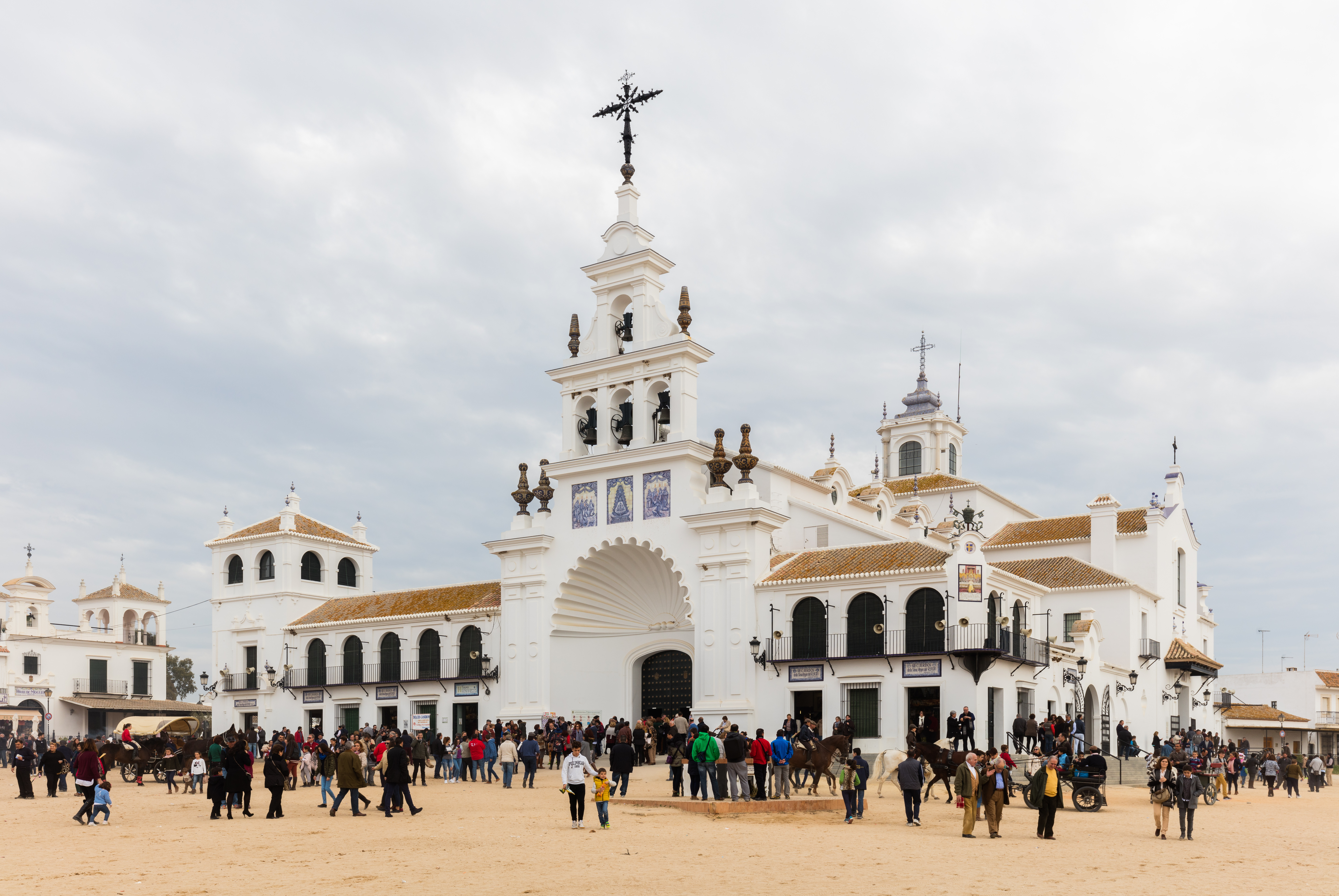 Ermita del Rocío, El Rocío, Huelva, Spain